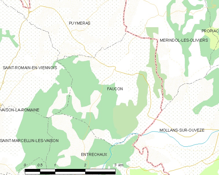 Map of French municipality Faucon